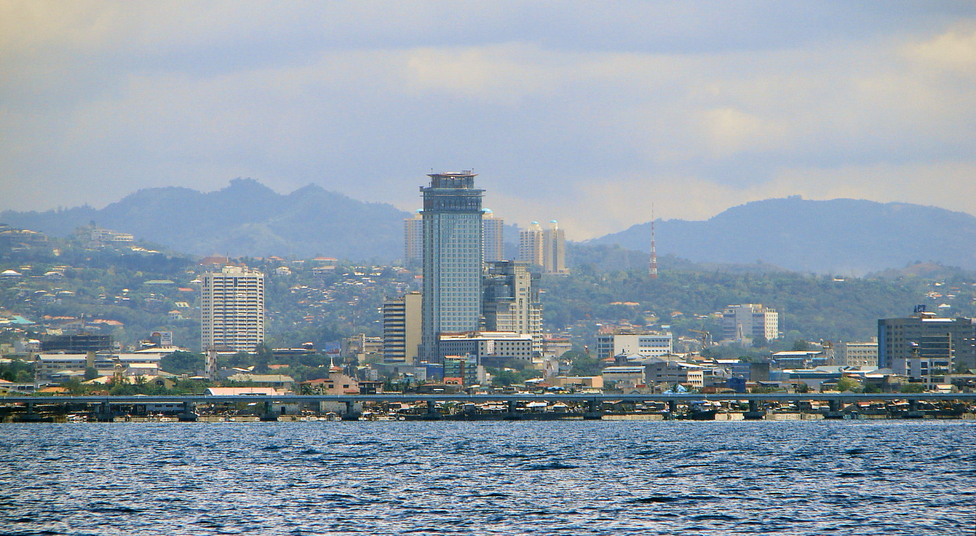 Skyline of Cebu City, Cebu, Philippines